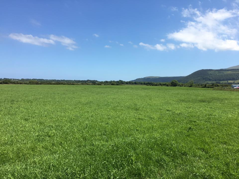 A view of the take off and landing area at Hall Caine Airfield, Isle of Man, June 2017.